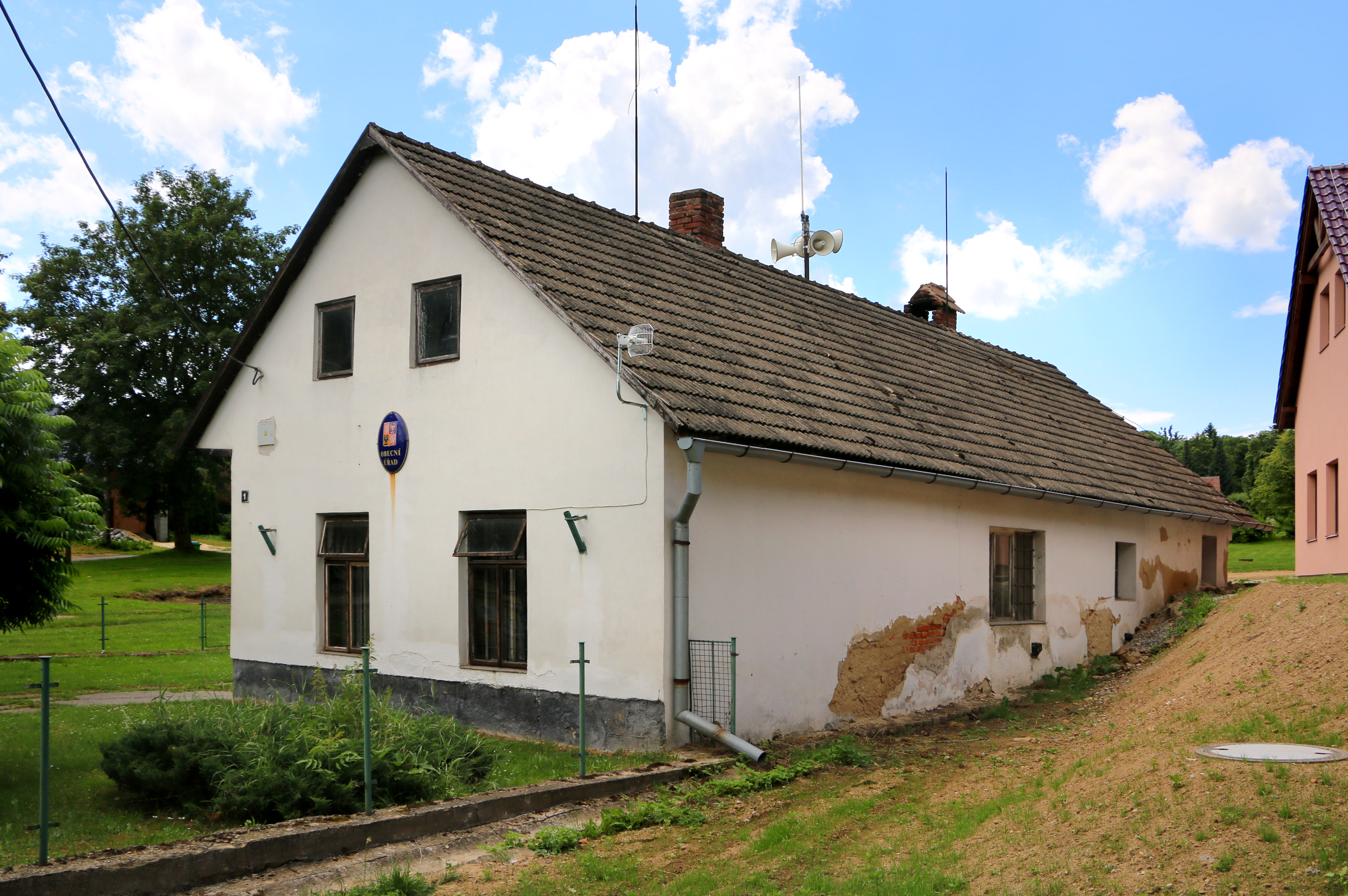 Old municipal office in Suchá village, Czech Republic.